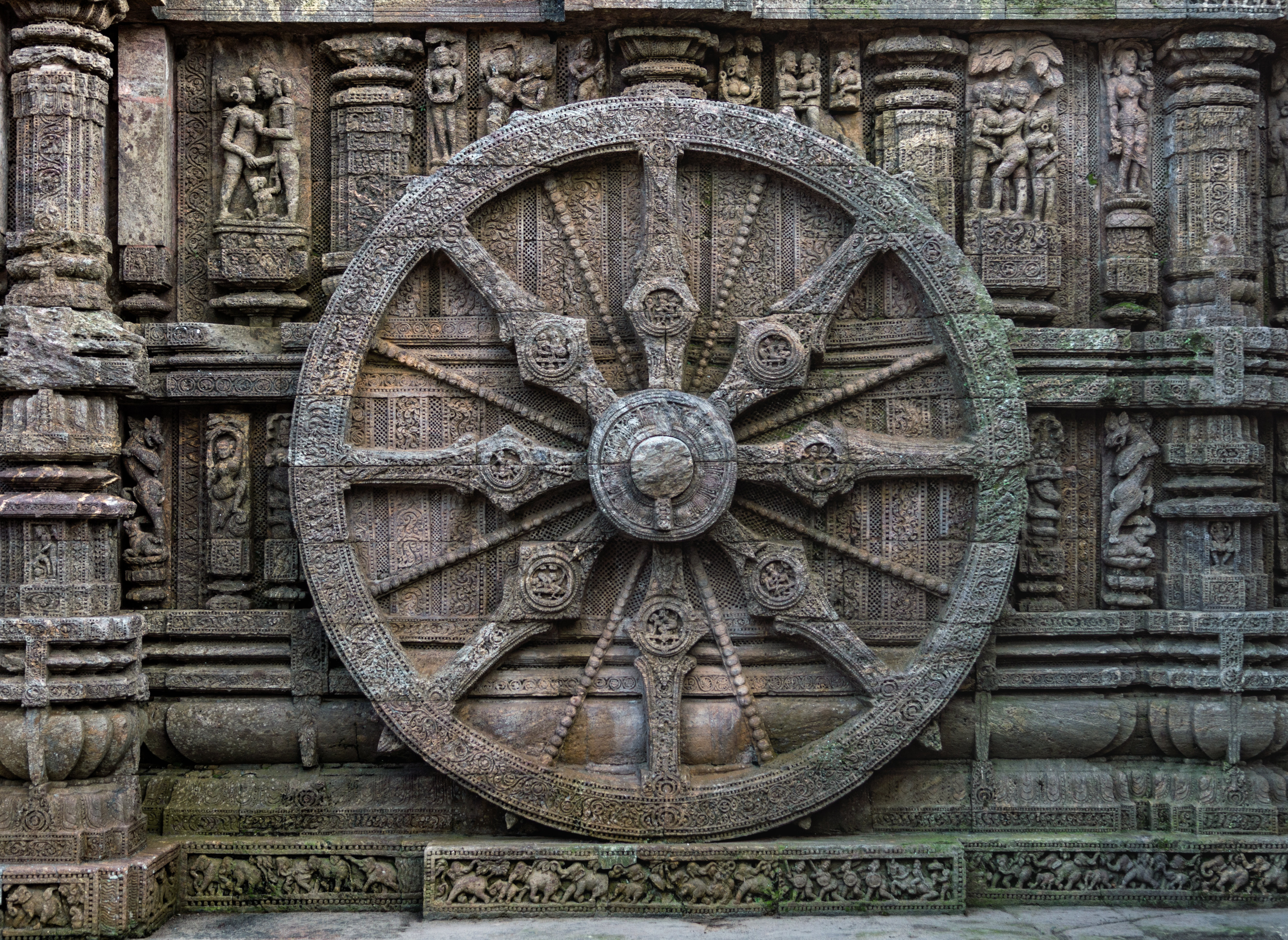 This is a wheel engraved in the 13th century built Konark Sun Temple in Orissa, India. The temple is designed as a chariot consisting of 24 such wheels. Each wheel has a diameter of 9 feet 9 inches with 8 spokes. Each wheel acts as a sun dial and the various engravings shows the daily activity of people at different hours of the day. This is a UNESCO World Heritage site.